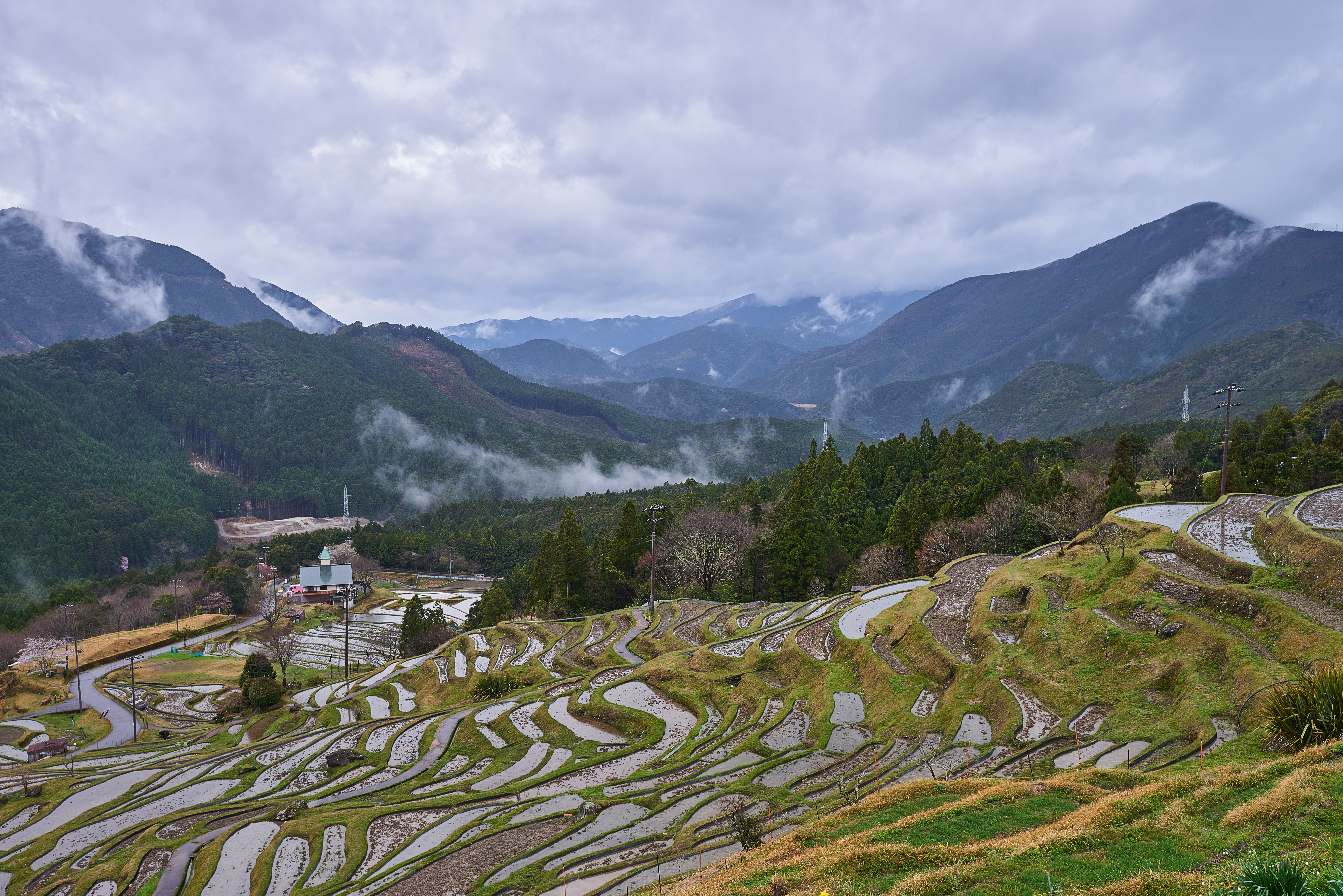 In Kumano, MIe prefecture, Japan.